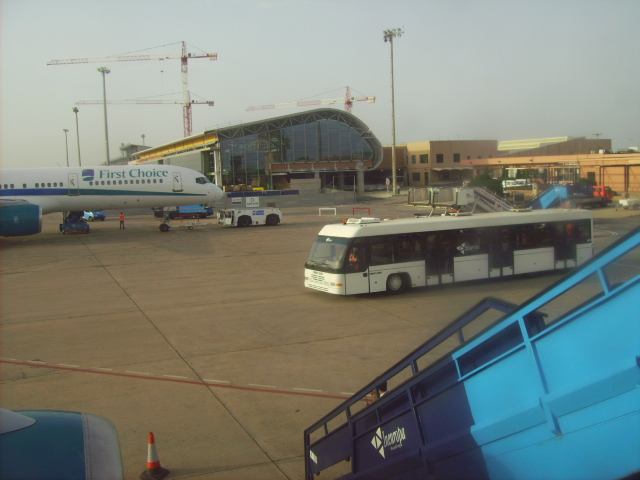 View of the Menorca Airport Terminal